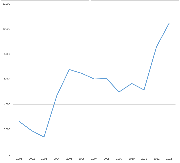 Number of Scrub typhus cases in South Korea during 2001-2013, reflecting an incidence increase in modern times in a developed country.[1]